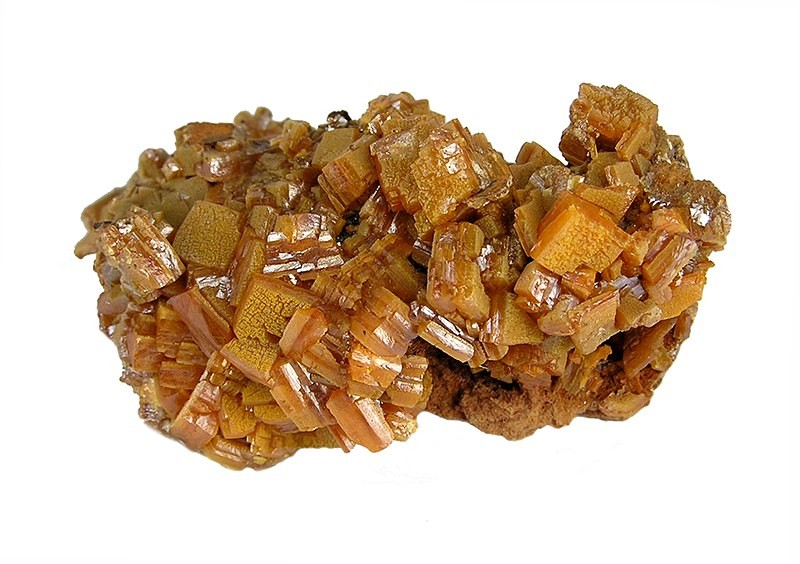 Wulfenite Locality: Mežica Mine, Mežica (Miess), Slovenia (Locality at ) Wulfenite specimens from this area are rarely seen in dealers stocks. Specimens of this quality are rarer still. Butterscotch, lustrous, tabular, crystals of wulfenite, to .75 cm across, abound on a hollow crust. 6 x 3.7 x. 3.7 cm